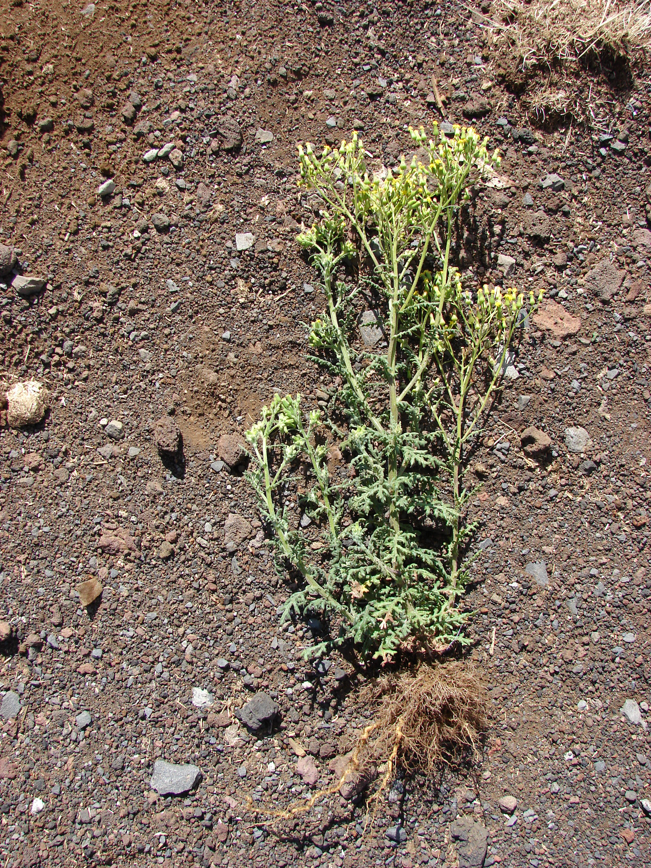 Senecio sylvaticus (habit). Location: Maui, HVC Haleakala National Park